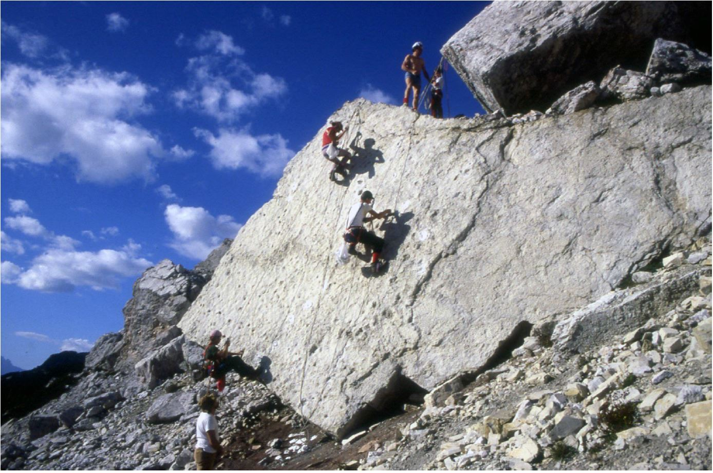 Autumn 1985: execution of the reliefs on PVC sheet of the trampled surface of the Monte Pelmetto boulder, with the help of the friends of the Club Speleologico Proteo of Vicenza. Photo by Paolo Mietto